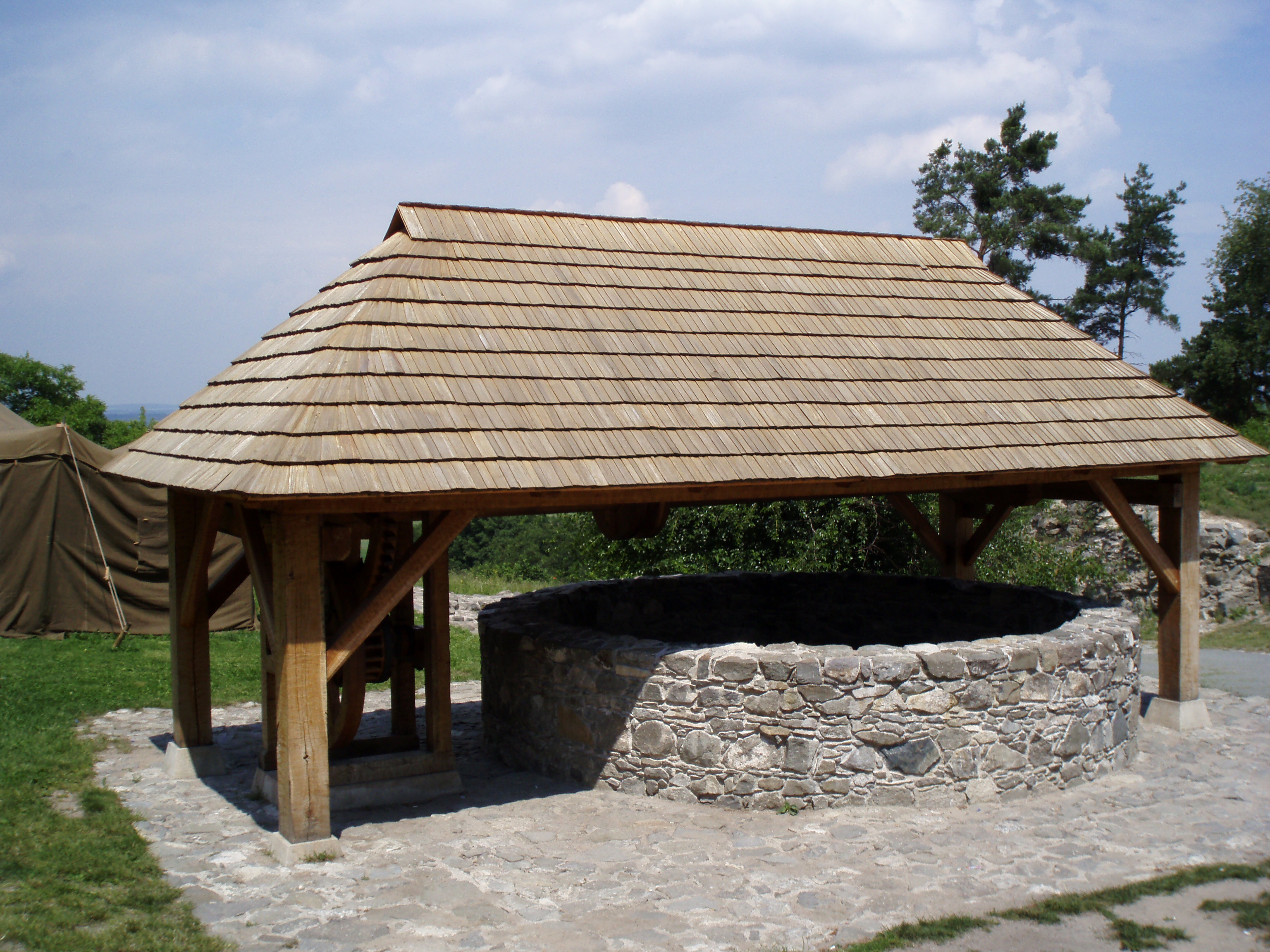 Kunětická hora Castle (CZ)